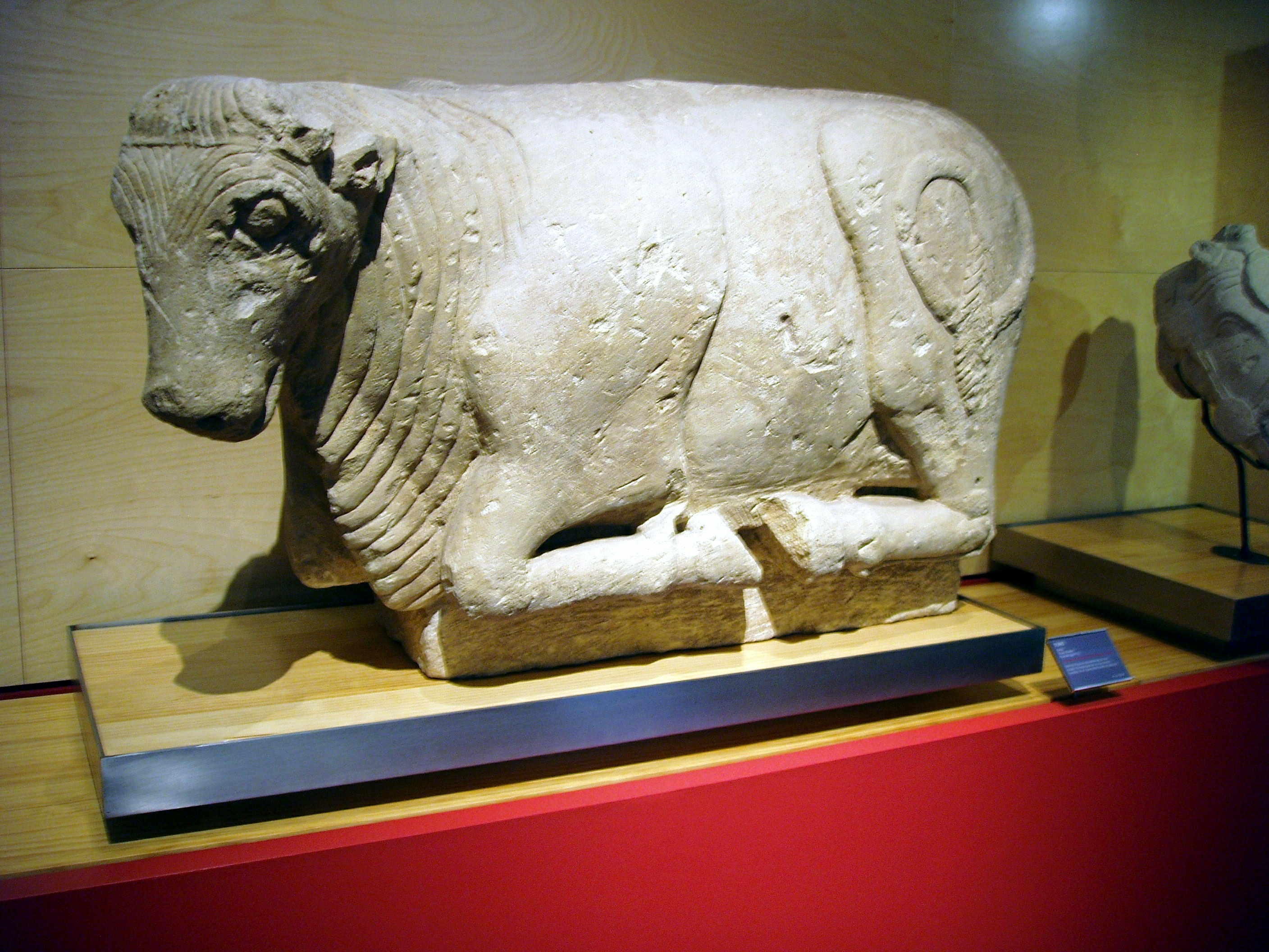 National Archaeological Museum of Spain